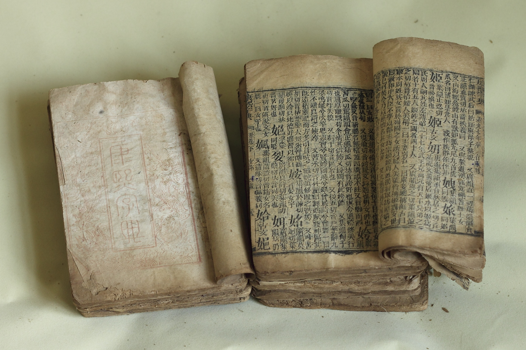 Kangxi Dictionary printed in 1827.